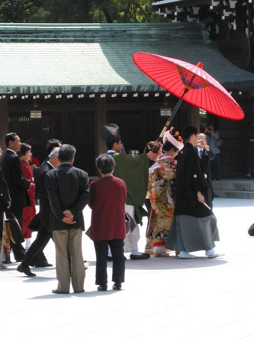 Shinto wedding at the Meiji shrine